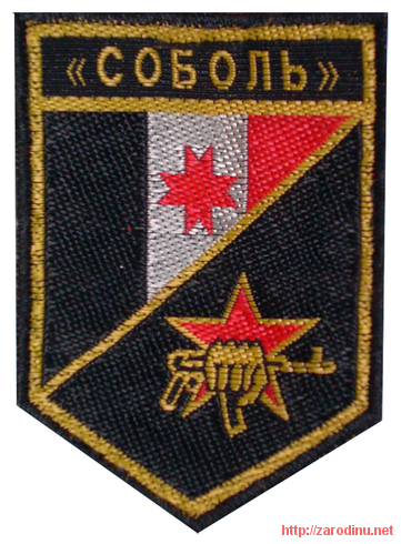 Emblem of the "Sobol" Unit in the Udmurt Police